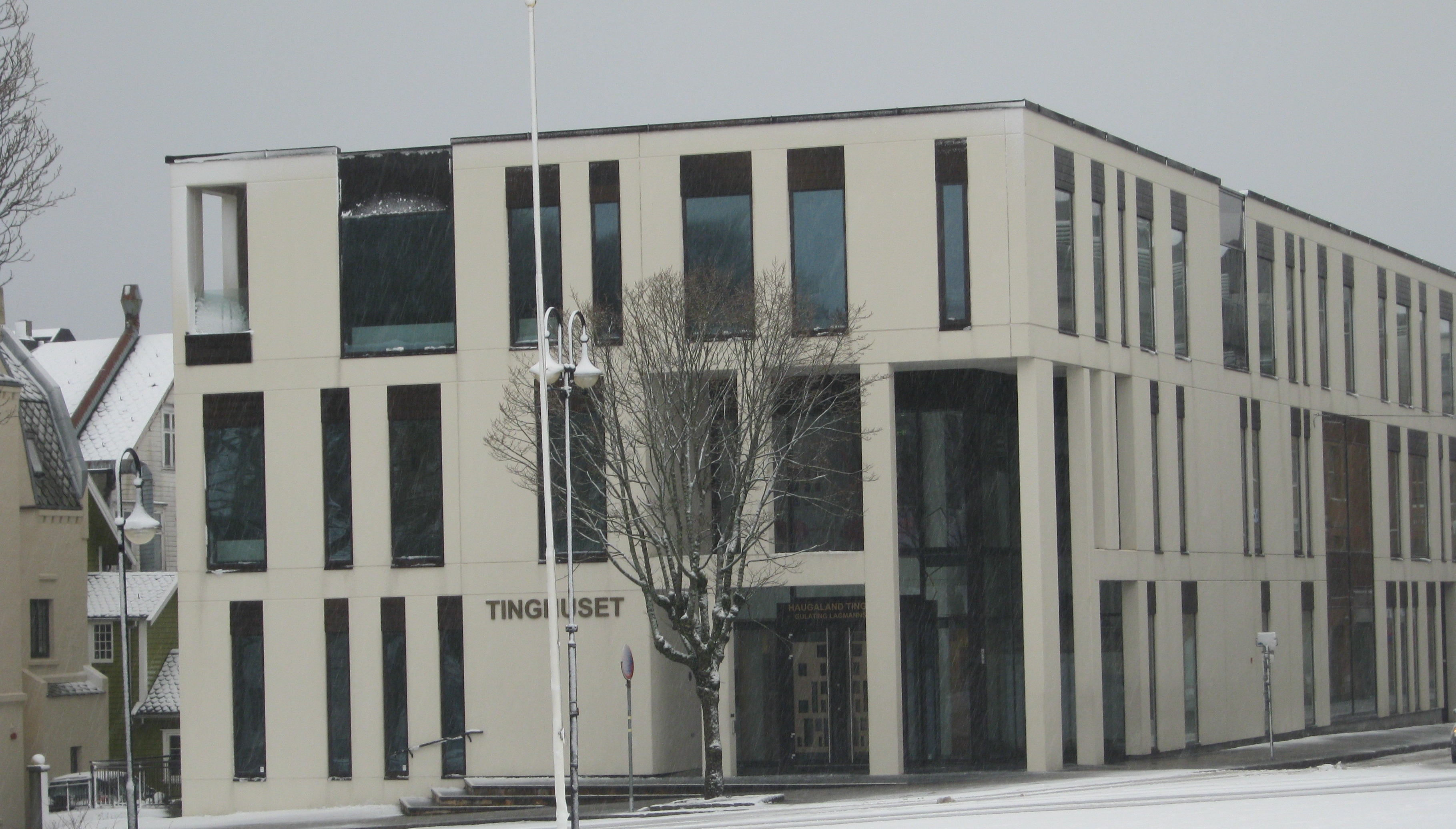 Haugaland District Court, located at Haugesund Courthouse, Haugesund, Norway